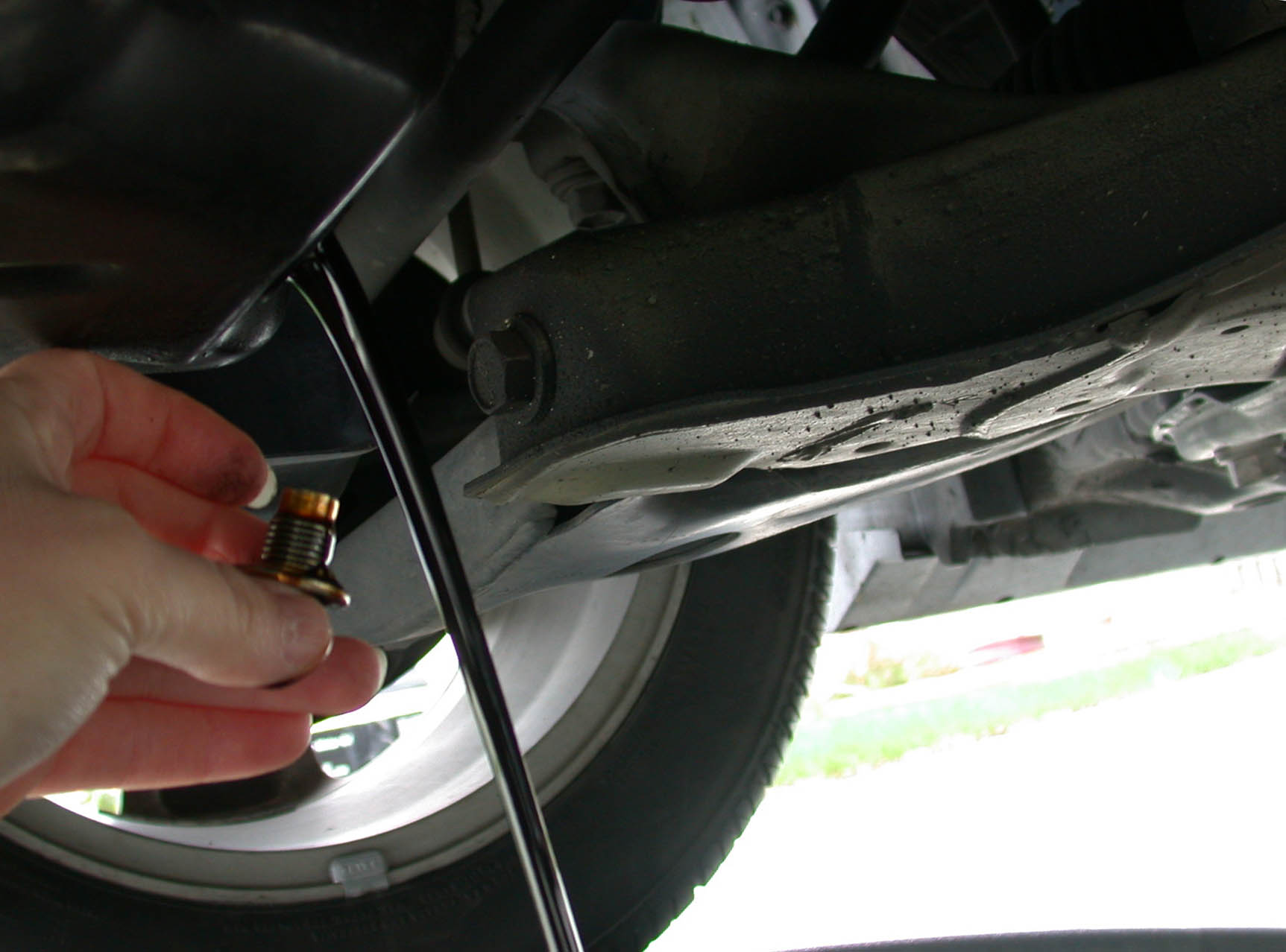 Draining the motor oil out of an automobile as part of an oil change.